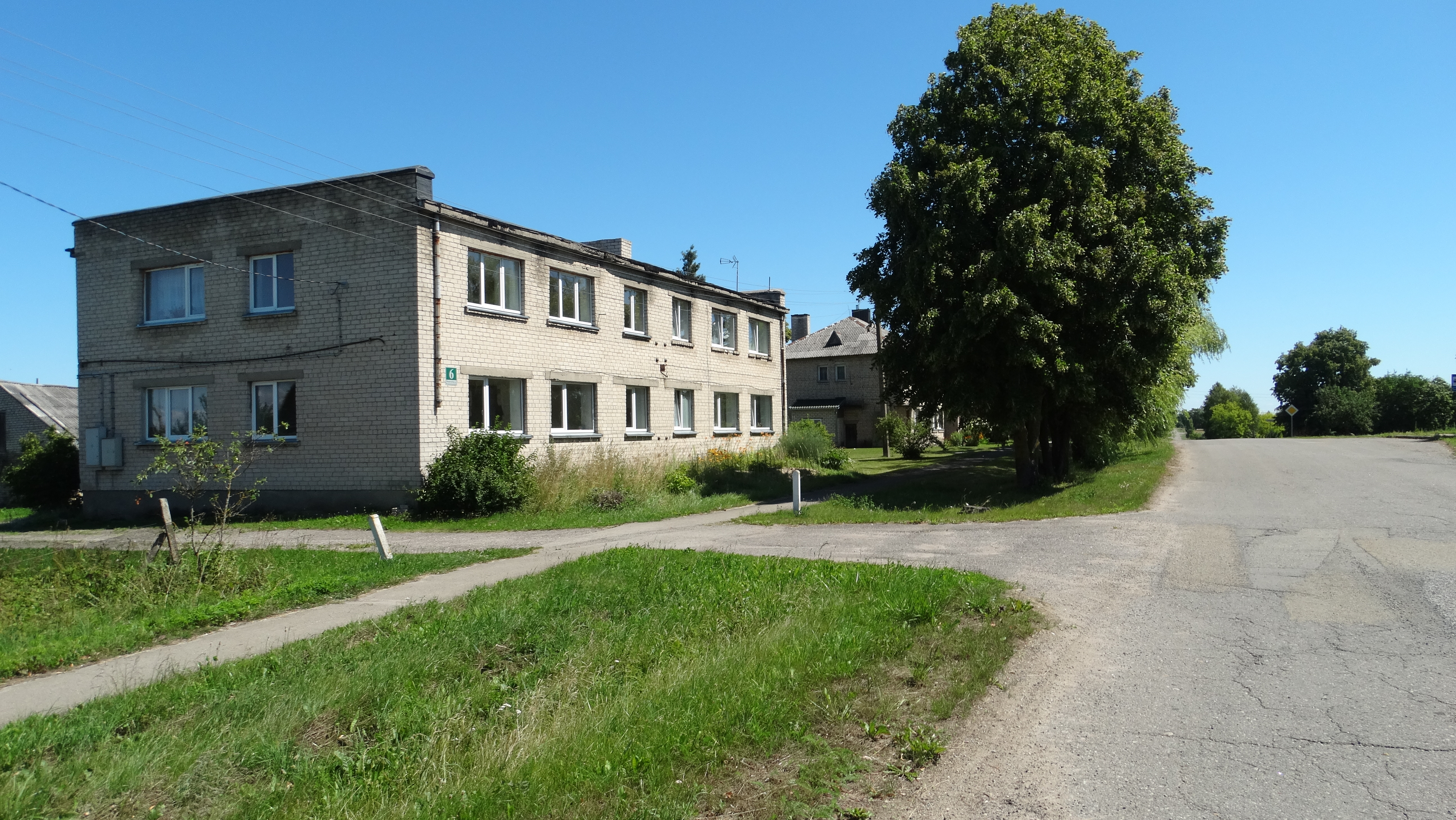 Budraičiai, Kelmė district, Lithuania